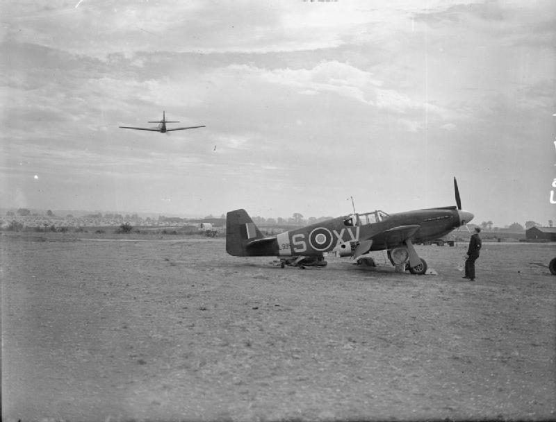 IWM caption : A North-American Mustang Mark I, AL995 'XV-S', of No. 2 Squadron RAF, undergoes an overhaul on its dispersal point at Sawbridgeworth, Hertfordshire, as another aircraft of the squadron overflys the airfield. Clearly no Mustang! Perhaps Hurricane?